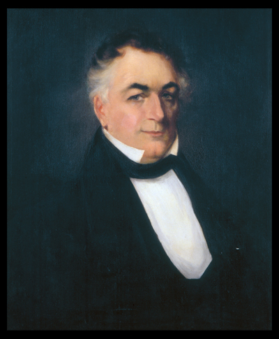 James Clark (1779 – 1839), the 13th Governor of the U.S. state of Kentucky